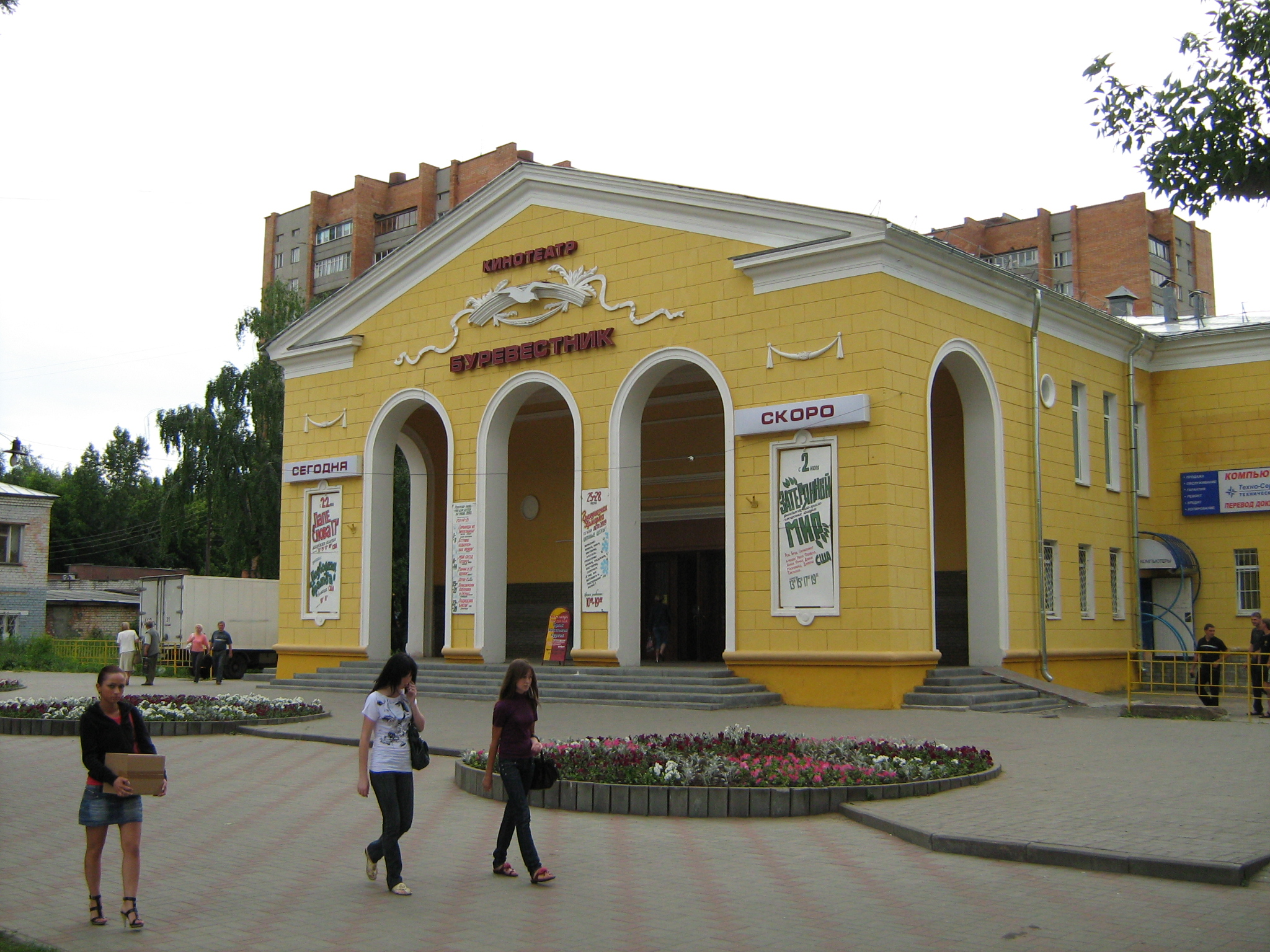 Komintern St in central Sormovo